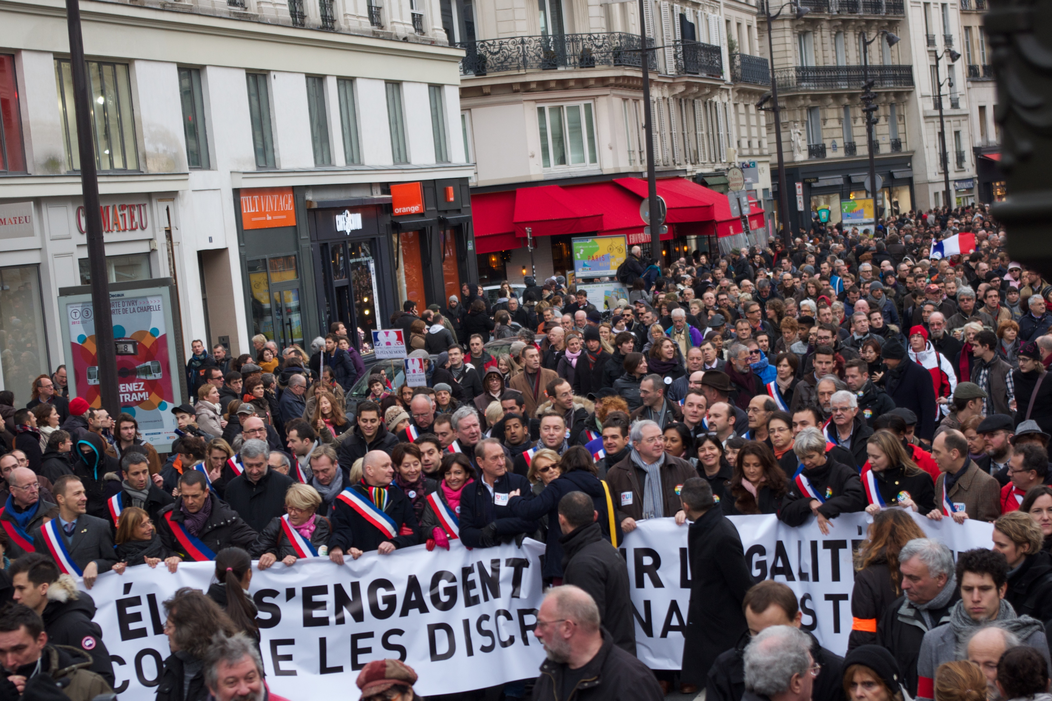 Demonstration in support of the bill of same-sex marriage, Paris, December 16, 2012